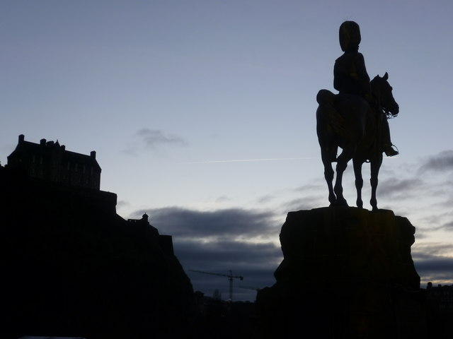 The Royal Scots Greys Monument, photographed on Hogmanay 2010.